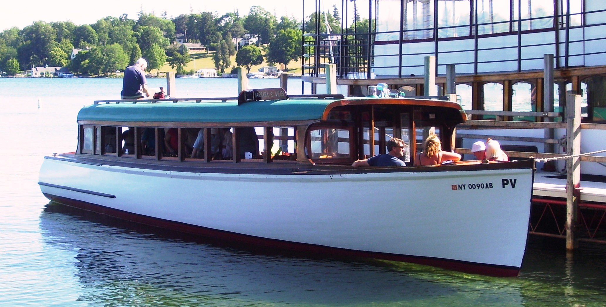 The Skaneateles Lake mailboat docked at Clift Park in Skaneateles, New York; operated by Mid-Lakes Navigation.